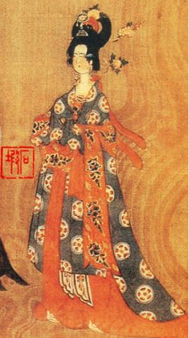 Female figure from "Bodhisattva Who Leads the Way", from Cave 17 at Mo-kao, Tunhwang (Kansu), 900-950 A.D. Pigments on silk, Musée Guimet, Paris.